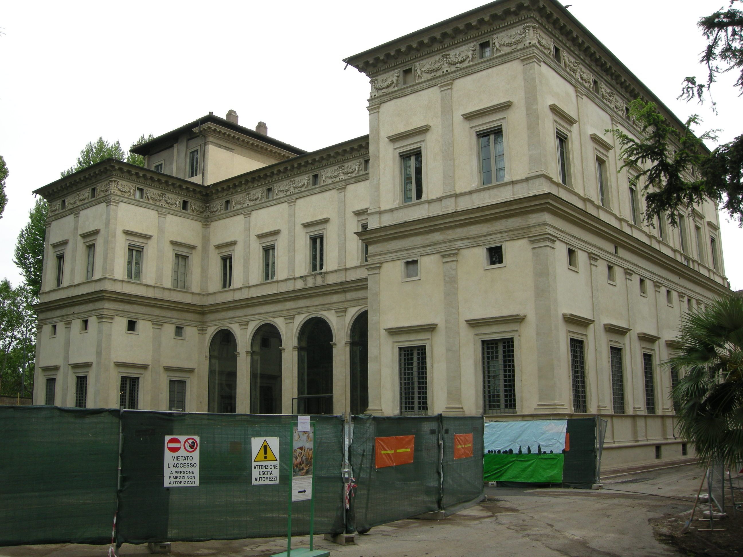 Villa Farnesina, Rome